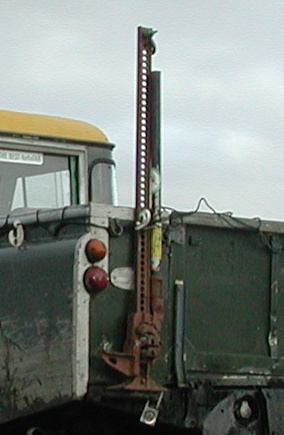 Photo of a Farm Jack attached to the back of a Land Rover